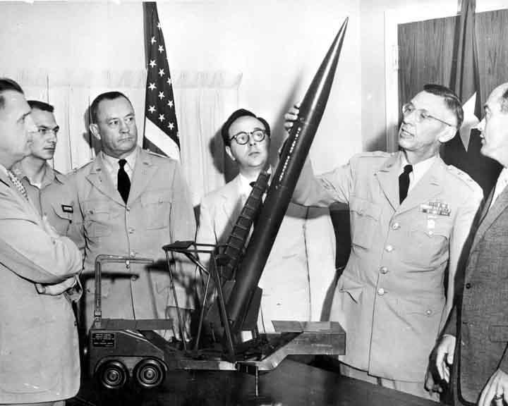 U.S. Army Major Genaral Holger N. Toftoy examinning a model of the Sergeant missile.